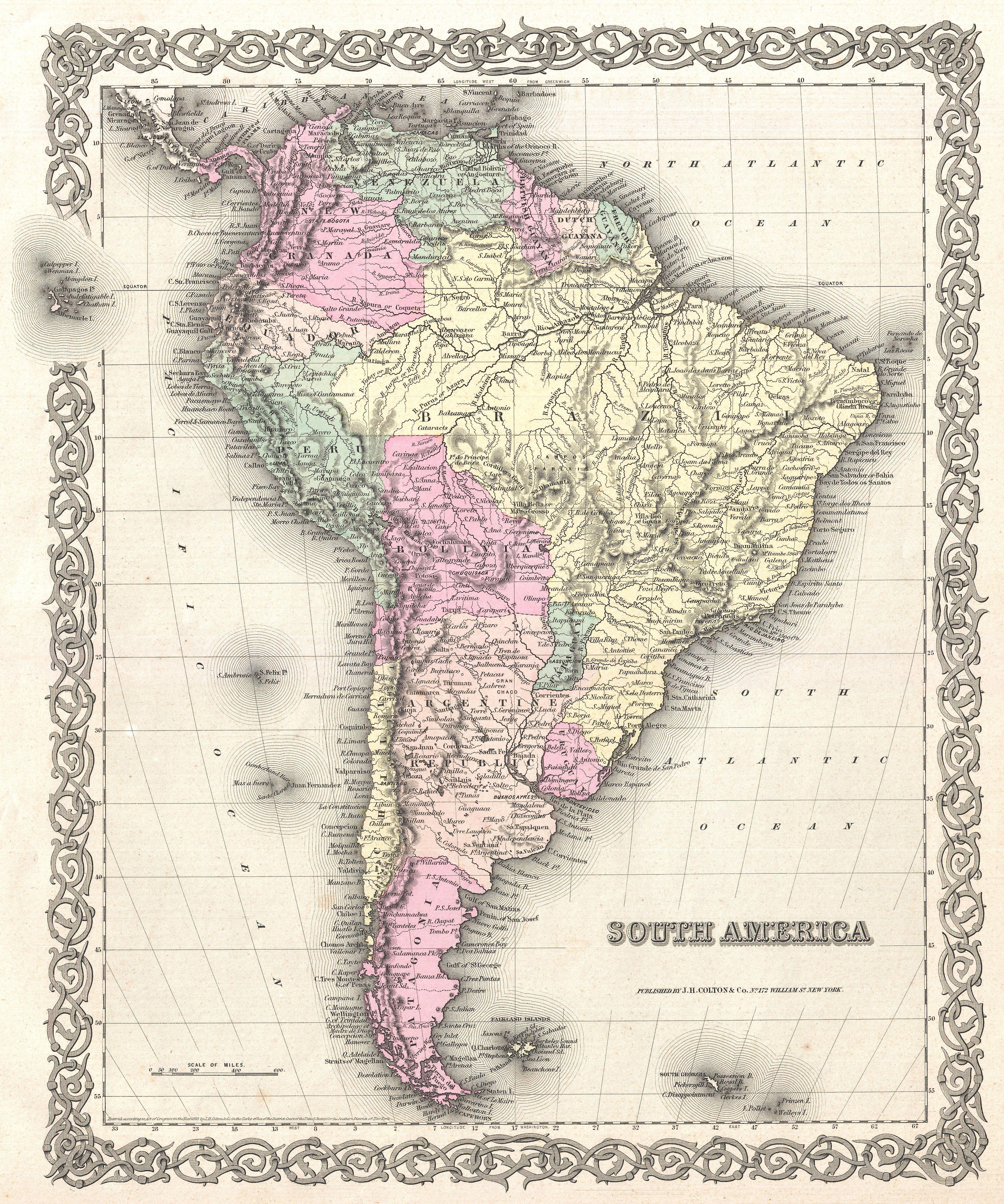 An excellent first edition example of Colton's rare 1855 map South America. Covers the entire continent from the Caribbean to Tierra del Fuego and from the Pacific to the Atlantic. Includes the Galapagos, Juan Fernandez, Falkland and South Georgia island groups. Throughout the map Colton identifies various cities, towns, forts, rivers, rapids, fords, and an assortment of additional topographical details. Map is hand colored in pink, green, yellow and blue pastels to define national and regional boundaries. Surrounded by Colton's typical spiral motif border. Dated and copyrighted to J. H. Colton, 1855. Published as page no. 58 in volume 1 of the first edition of George Washington Colton's 1855 Atlas of the World .